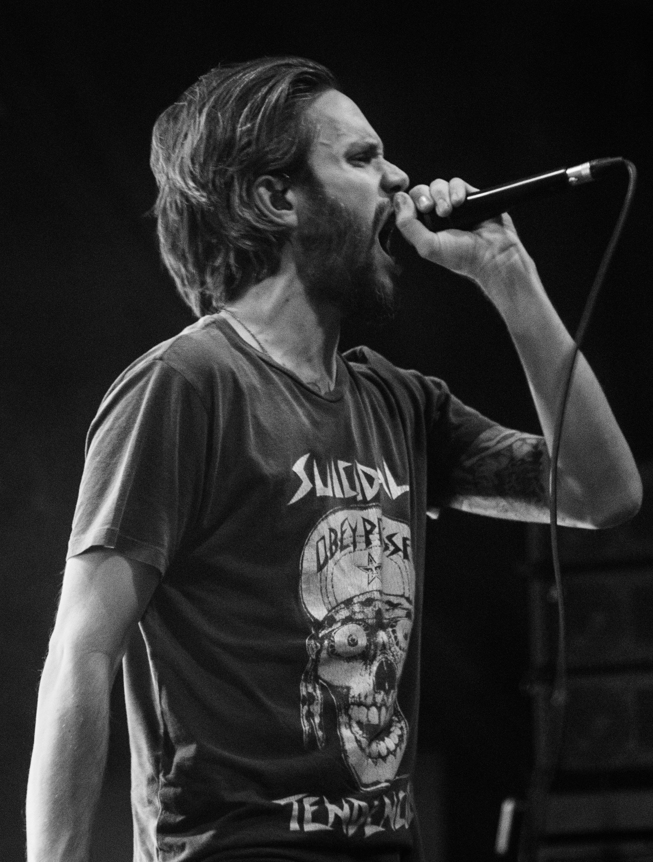 Between the Buried and Me performing live at Euroblast Festival 2015, Cologne, Germany